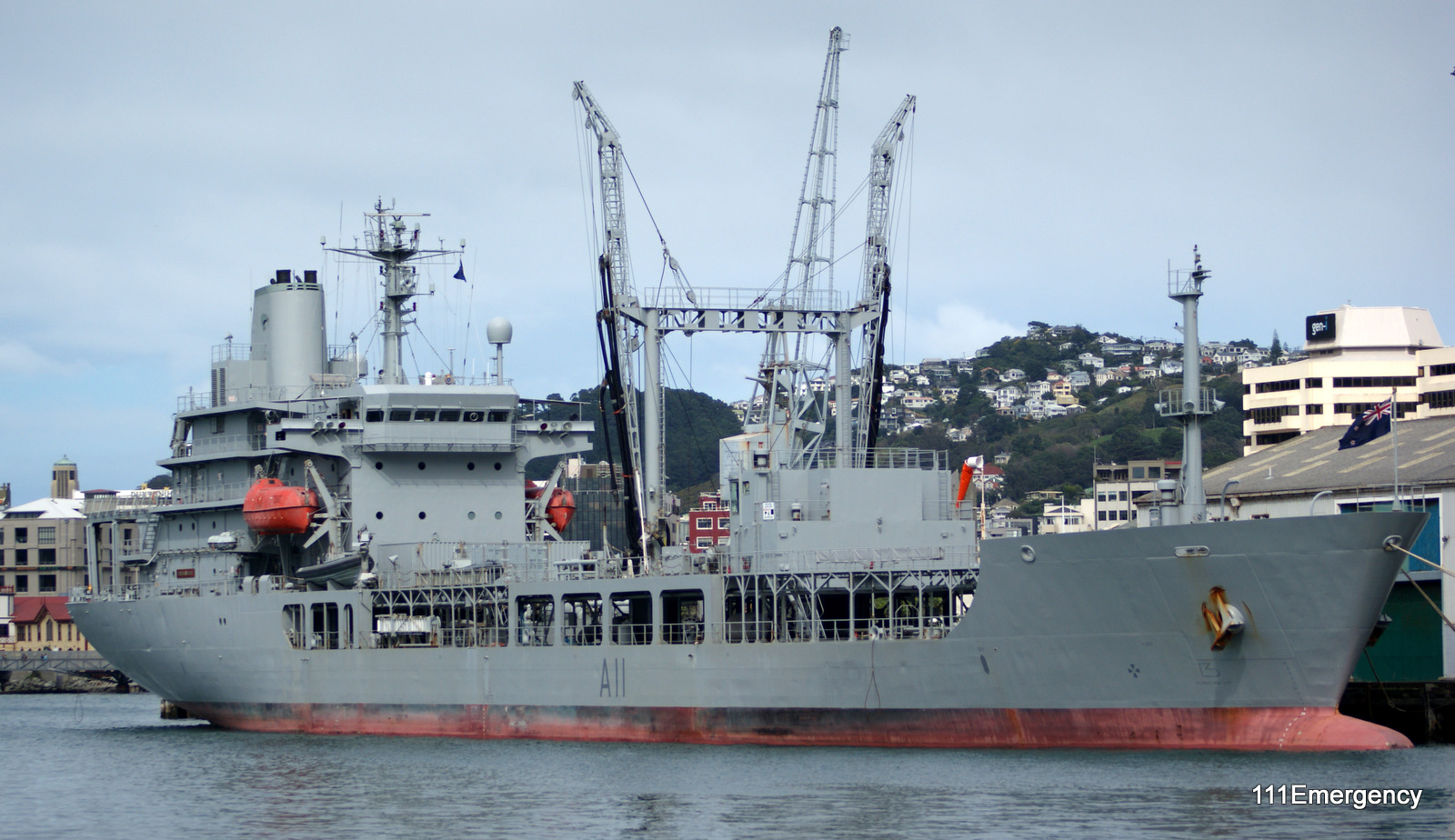 HMNZS Endeavour visits Wellington